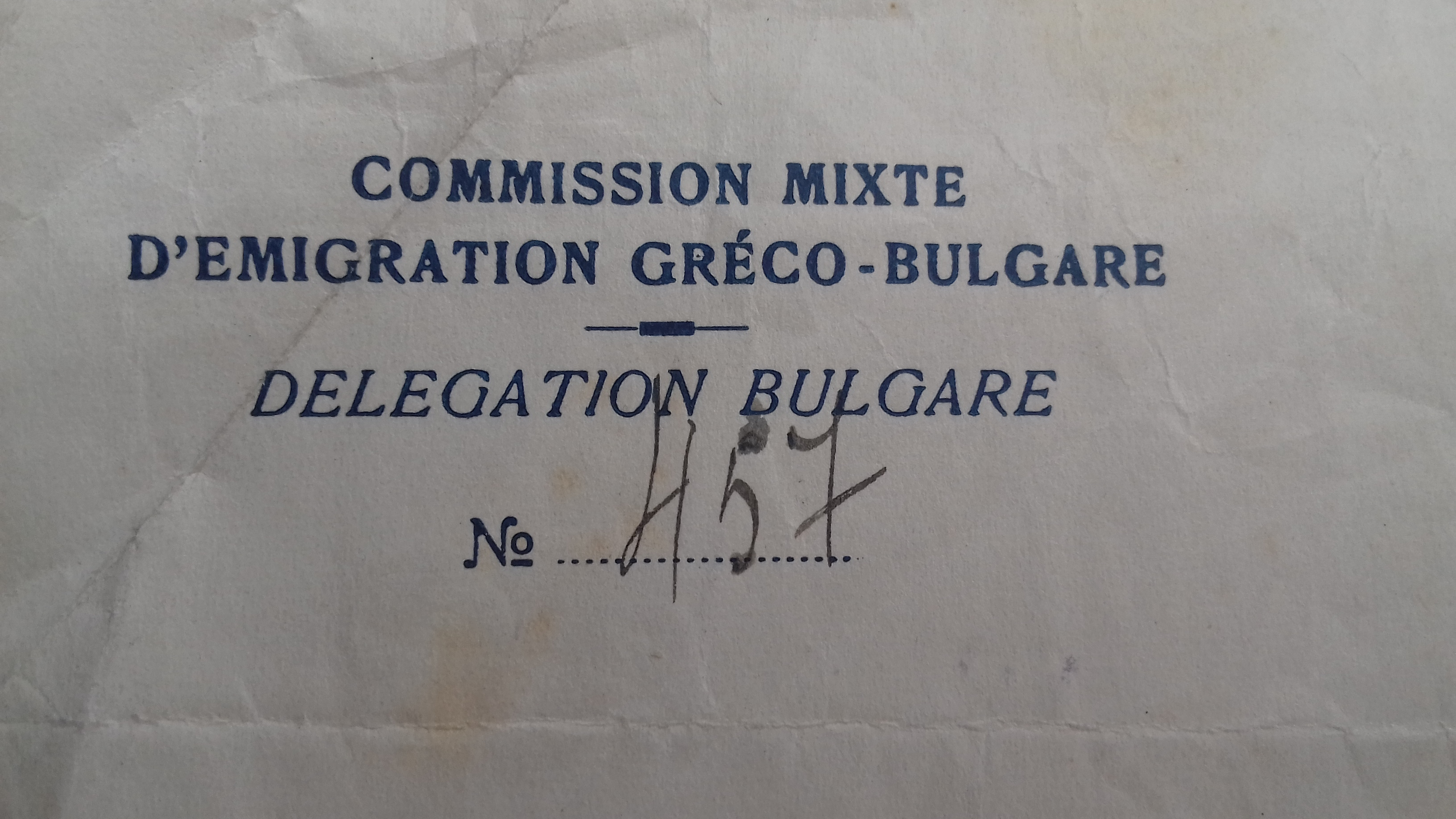 Joint Greek-Bulgarian Emmigration Committee Document 7 May 1929 Detail 02